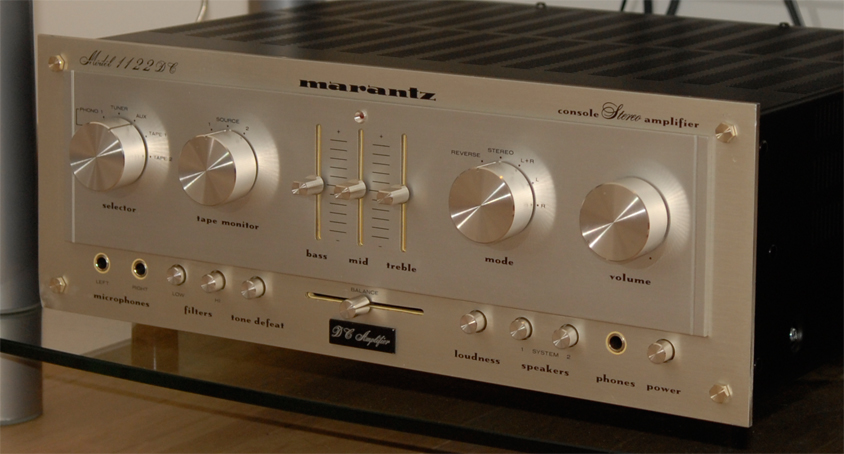 Integrated amplifier Marantz 1122 DC, produced between 1977 and 1980.